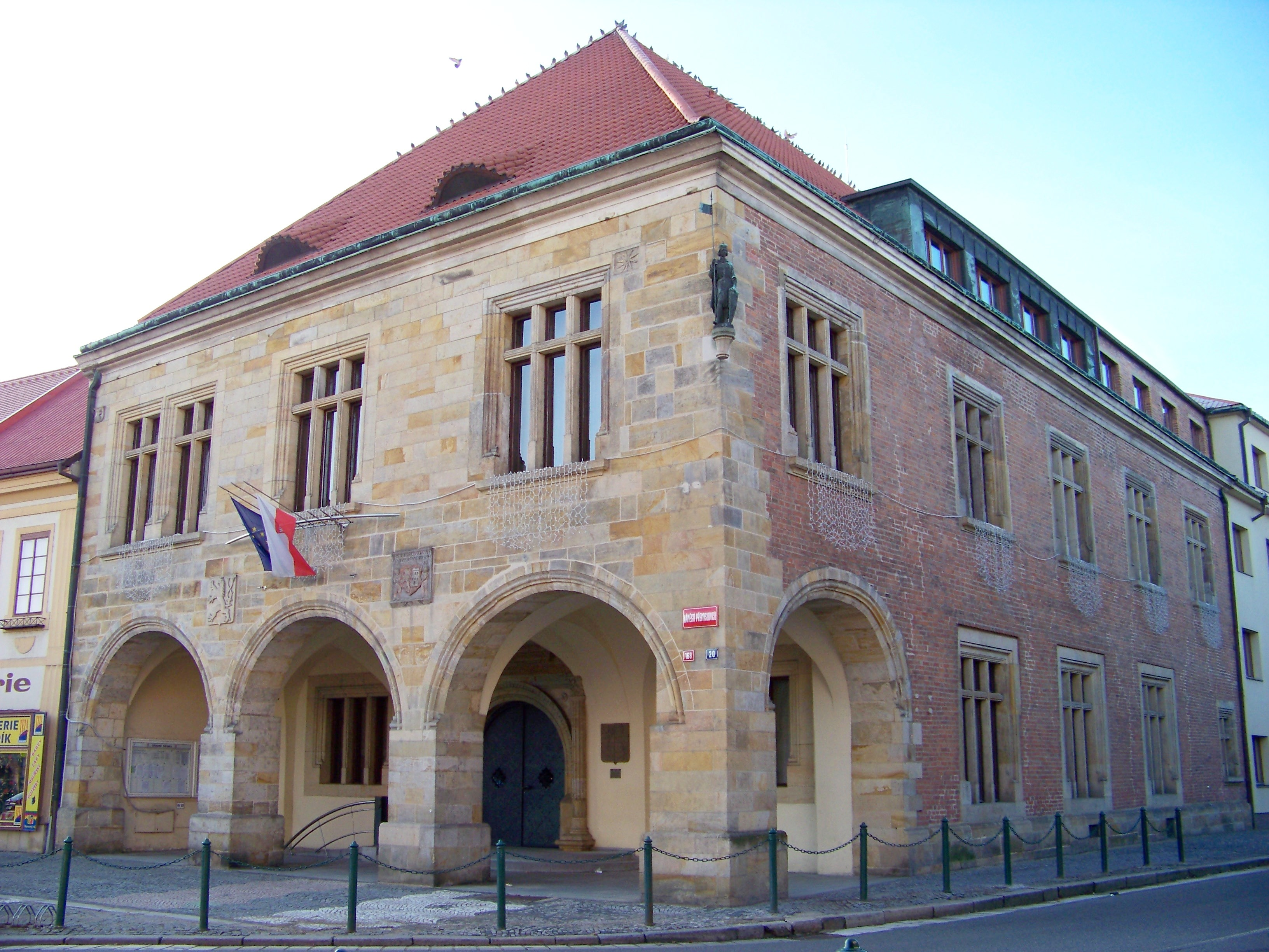 Nymburk, Nymburk District, Central Bohemian Region, the Czech Republic. Náměstí Přemyslovců and Boleslavská třída, a town hall.